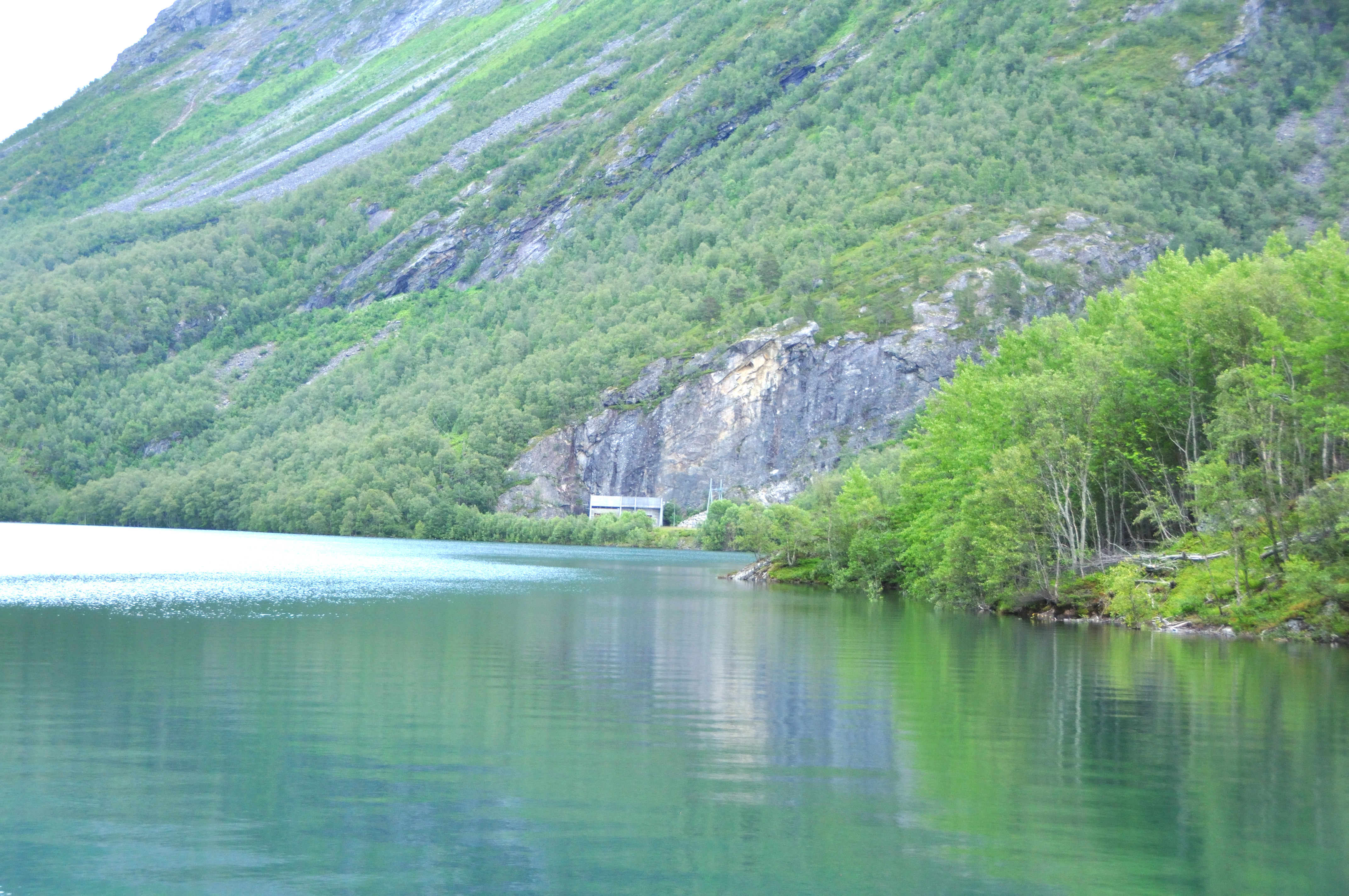 The Zakarias lake and reservoir seen from the dam towards Tafjord hydro power station no 5.